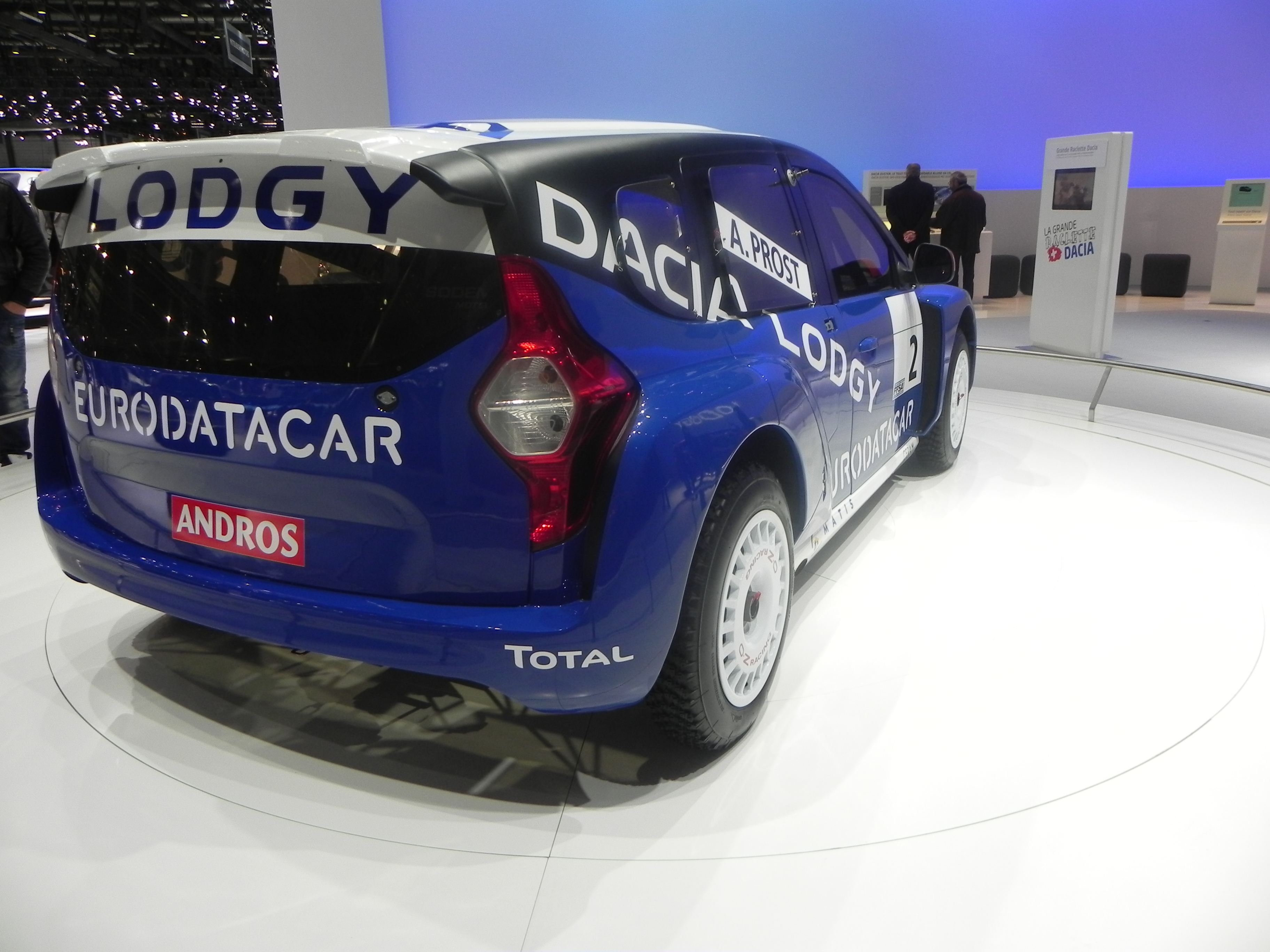 dacia Lodgy glace